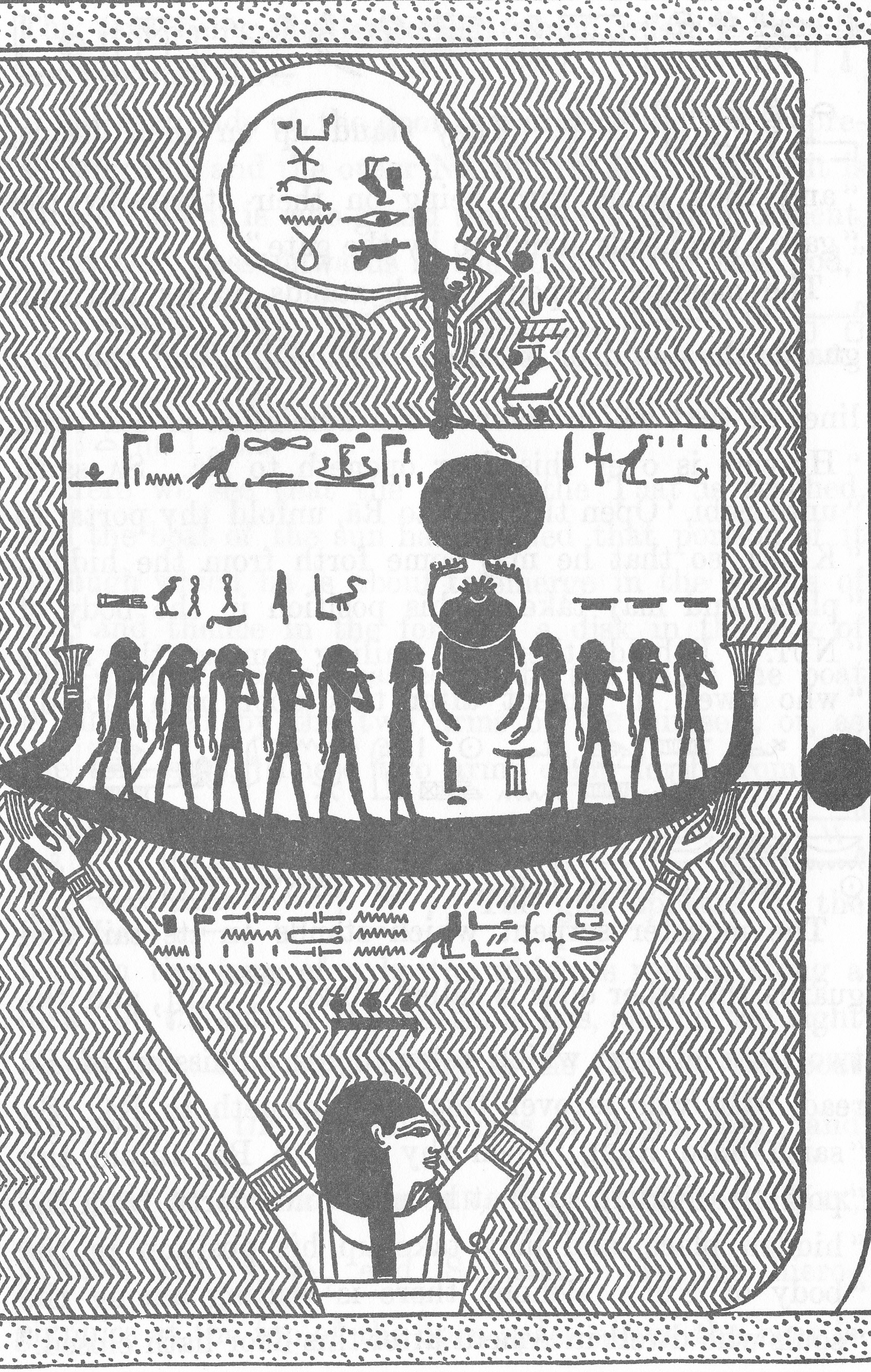 Twelwe hour